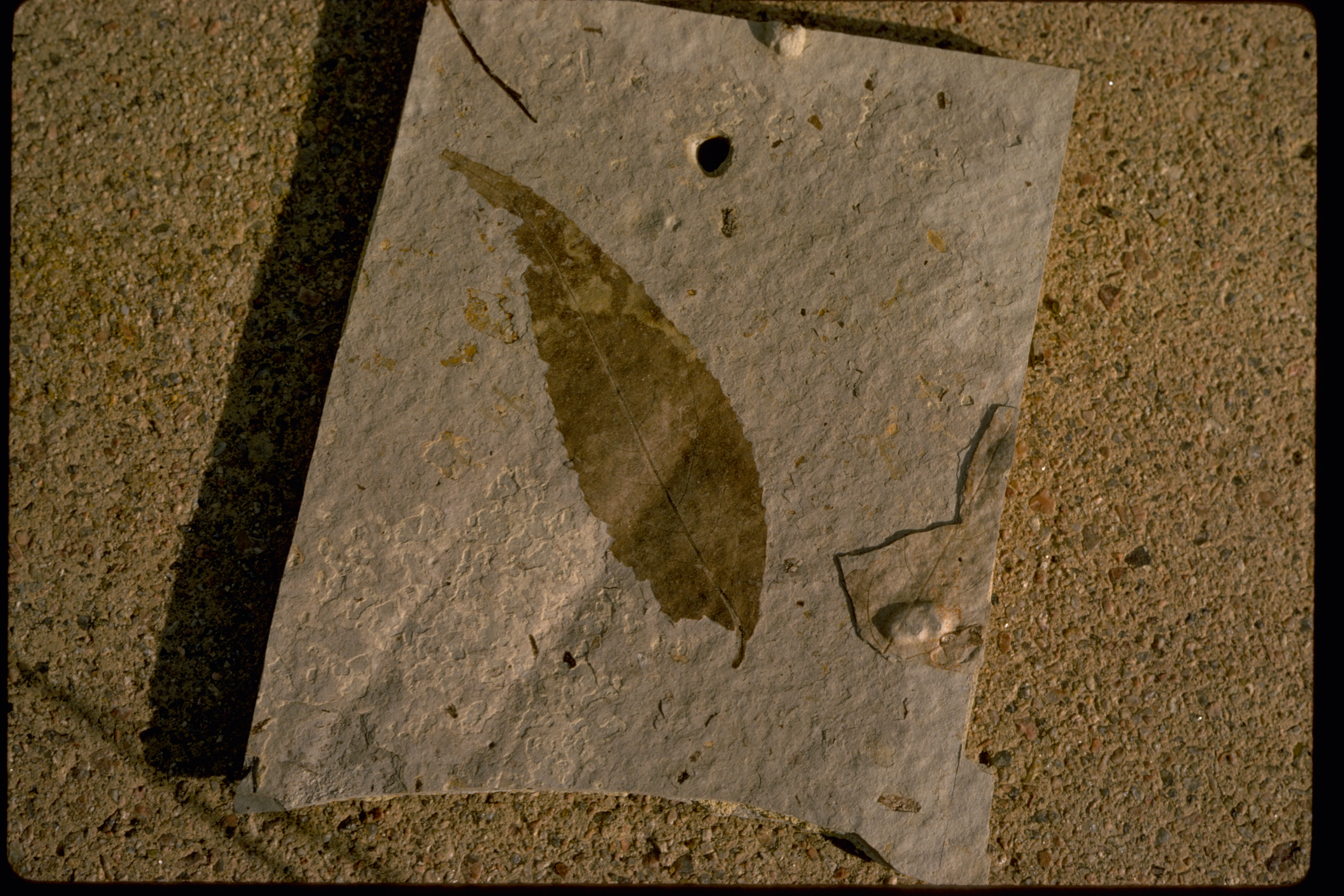 Location Florissant Fossil Beds National Monument Description Beneath a grassy mountain valley in central Colorado lies one of the richest and most diverse fossil deposits in the world. Petrified redwood stumps up to 14 feet wide and thousands of detailed fossils of insects and plants reveal the story of a very different, prehistoric Colorado.